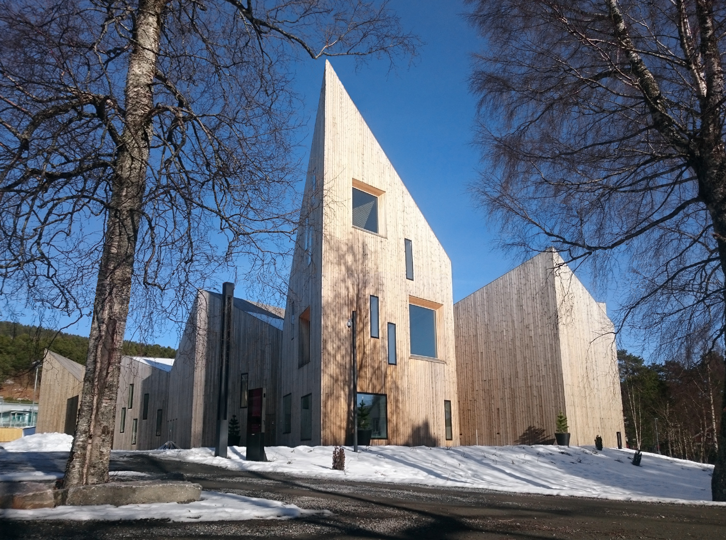 "Krona" the main building at Romsdalsmuseet, Molde, Norway. Architect Reiulf Ramstad Arkitketer AS, Oslo.